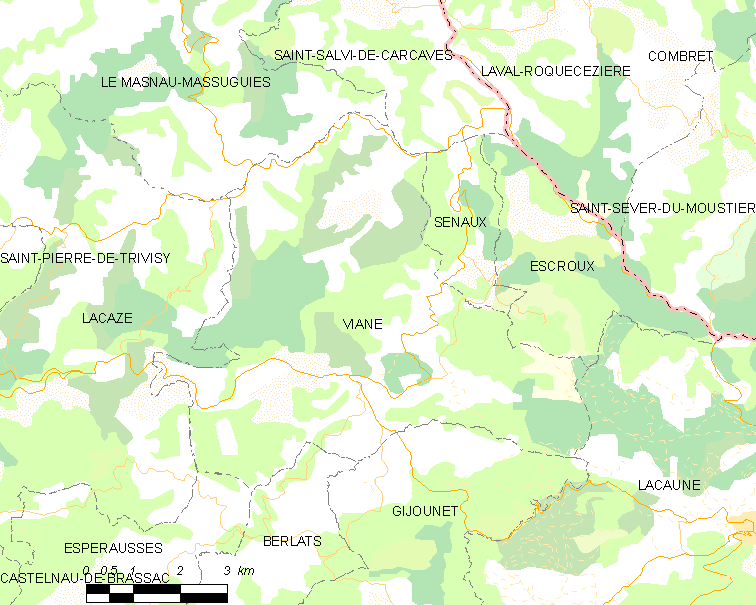 Map commune FR insee code 81314.png - Viane (Tarn)